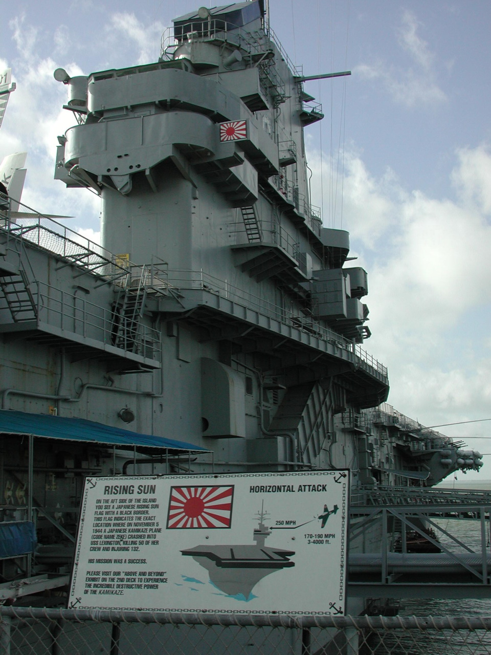 The decal on the superstructure of the USS Lexington shows the location of a kamikaze aircraft hit during an engagement in World War II.